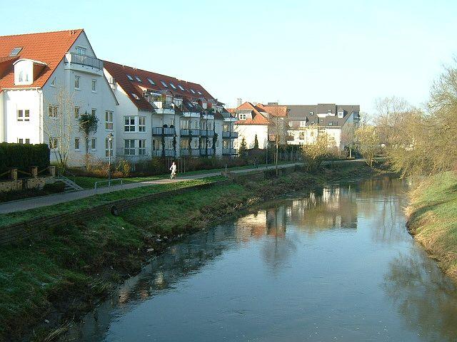 Bad Vilbel, town in Hesse. Here:View from the Niddabridge